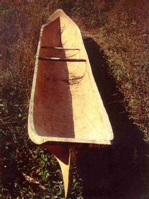 ship from guanandi timber